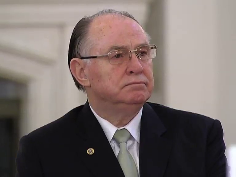 Mikhail Titarenko at the State Prize of the Russian Federation awards ceremony